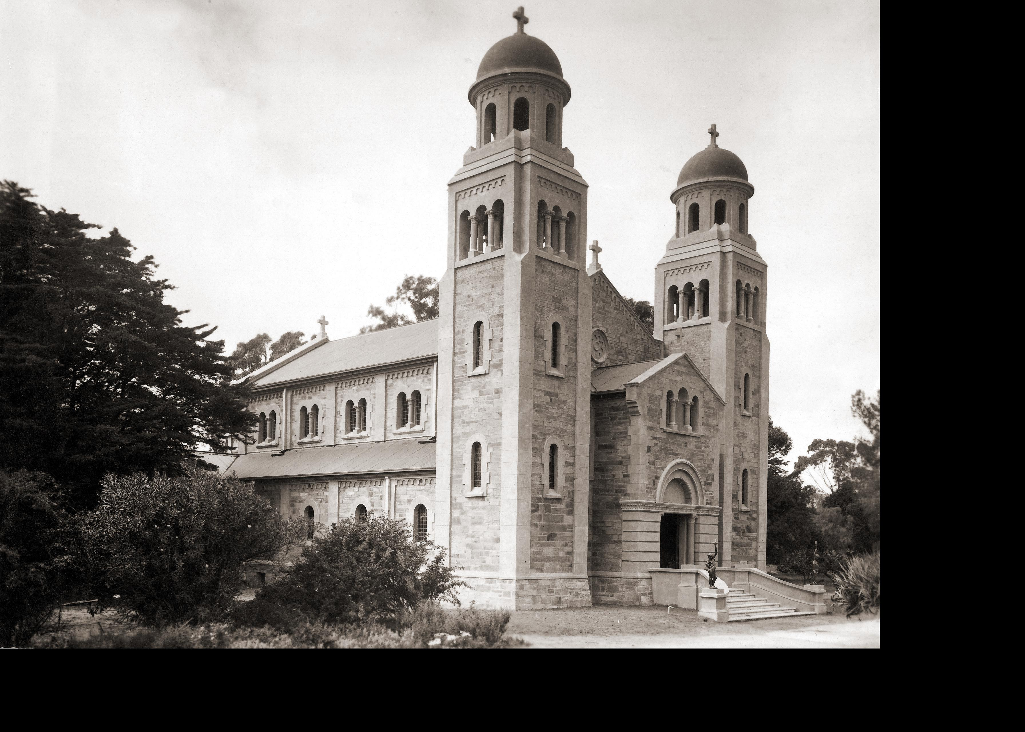 Sacred Heart College Memorial Chapel, soon after its completion. ca. April 5th, 1924